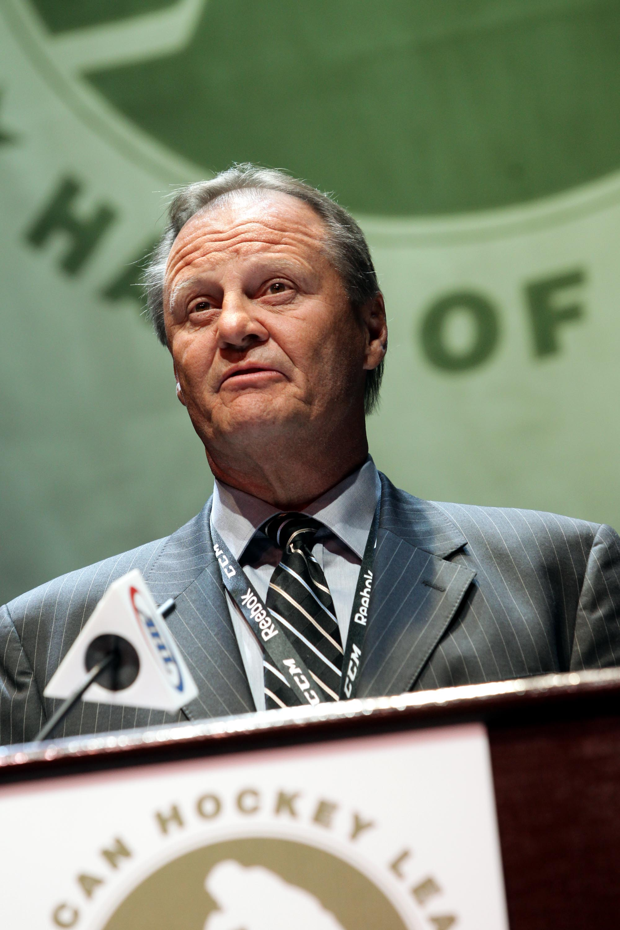 PhotoGraphics Photography/AHL American Hockey League (AHL) AHL Hall of Fame. Circus Maximus Theater - Atlantic City, NJ Taken on January 30, 2012 using a Canon EOS 5D Mark II.